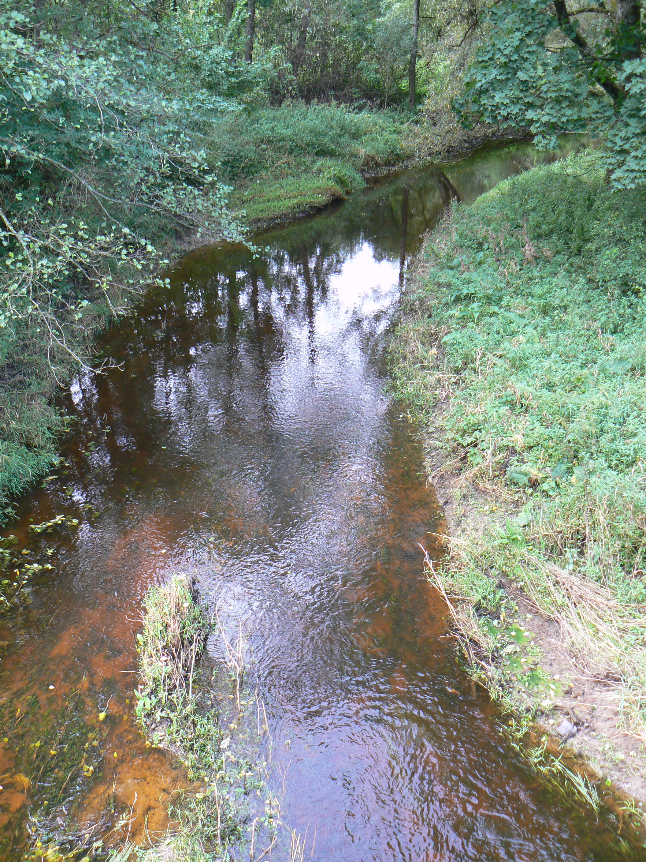 River Nova (Lithuania)